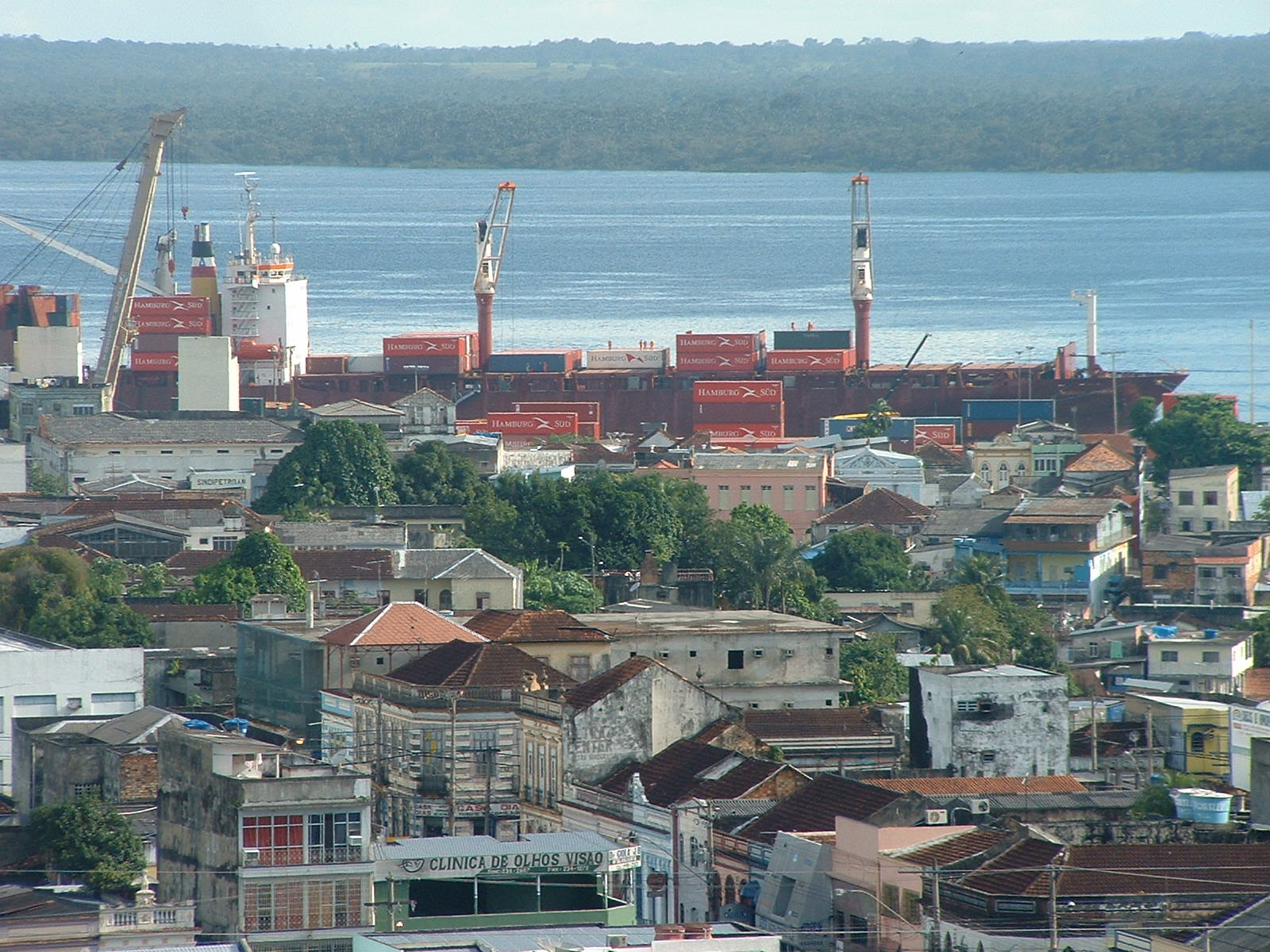 View over Manaus downtown, the harbour and the Rio Negro — a registered National Historic Heritage of Brazil monument.